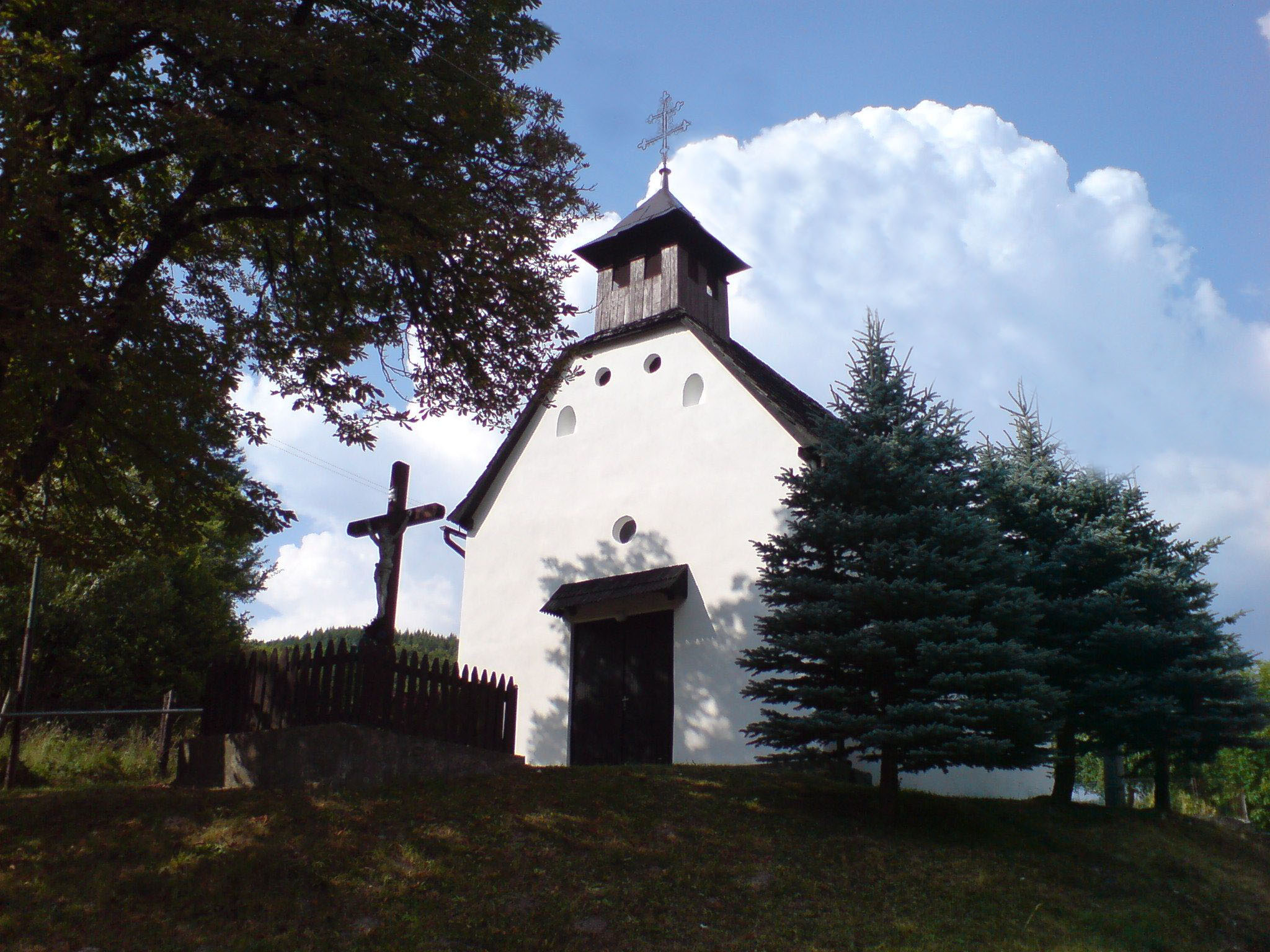 Caple